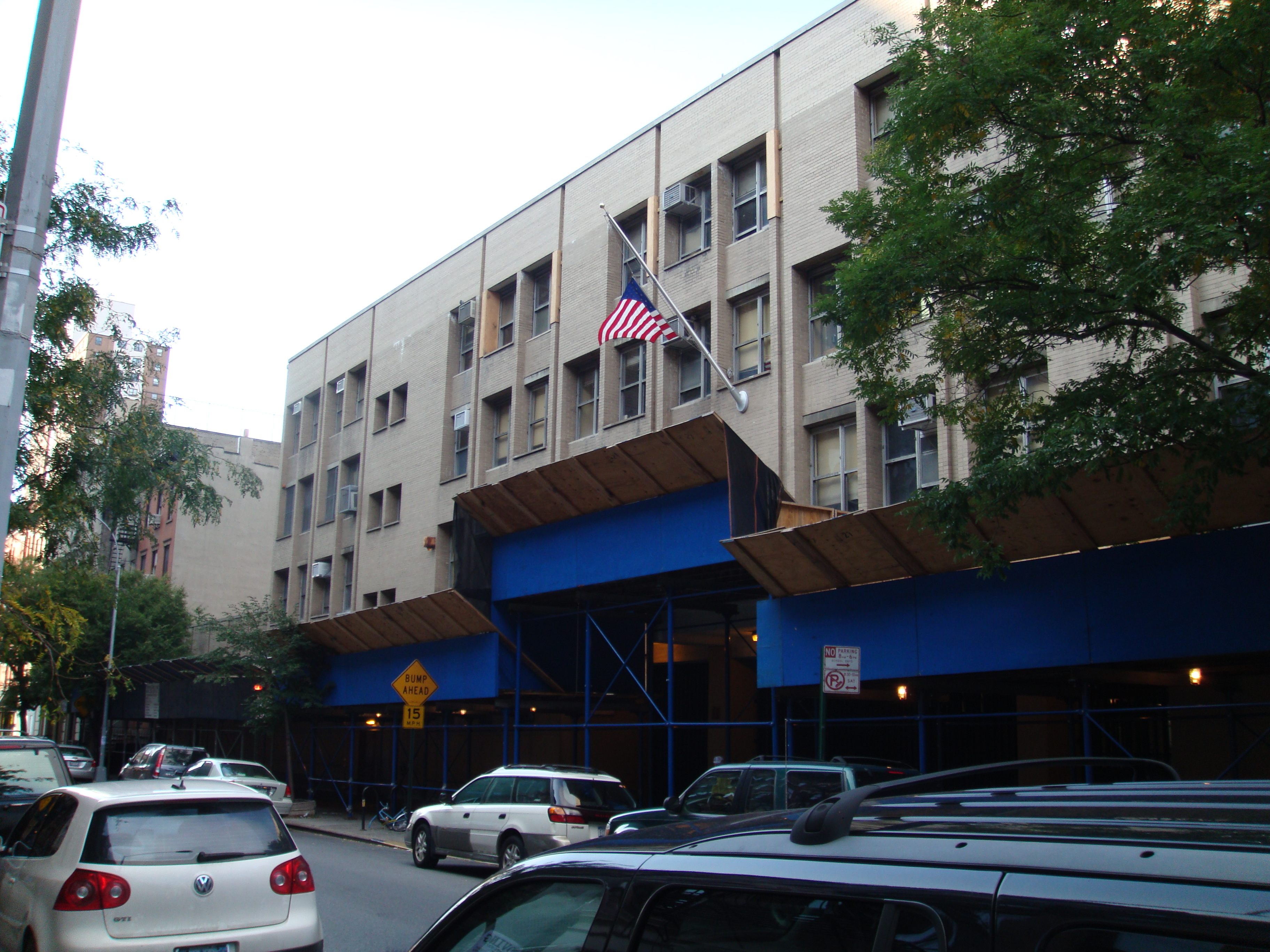 This photo is of Wikis Take Manhattan goal code E1, New York City Museum School.